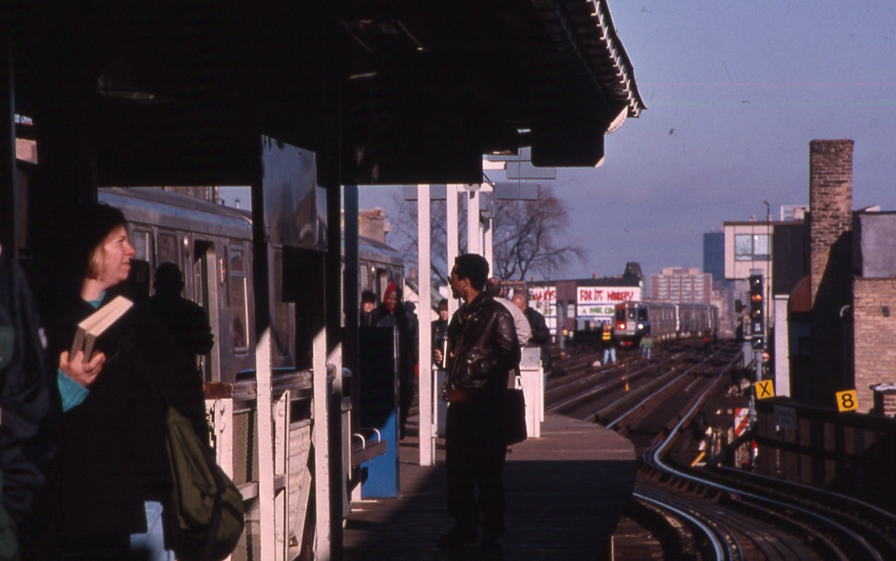 19991210 12 CTA North Side L @ Belmont